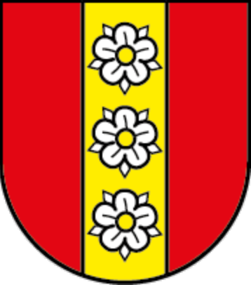 Shield of the municipality of Buchegg, Canton of Solothurn